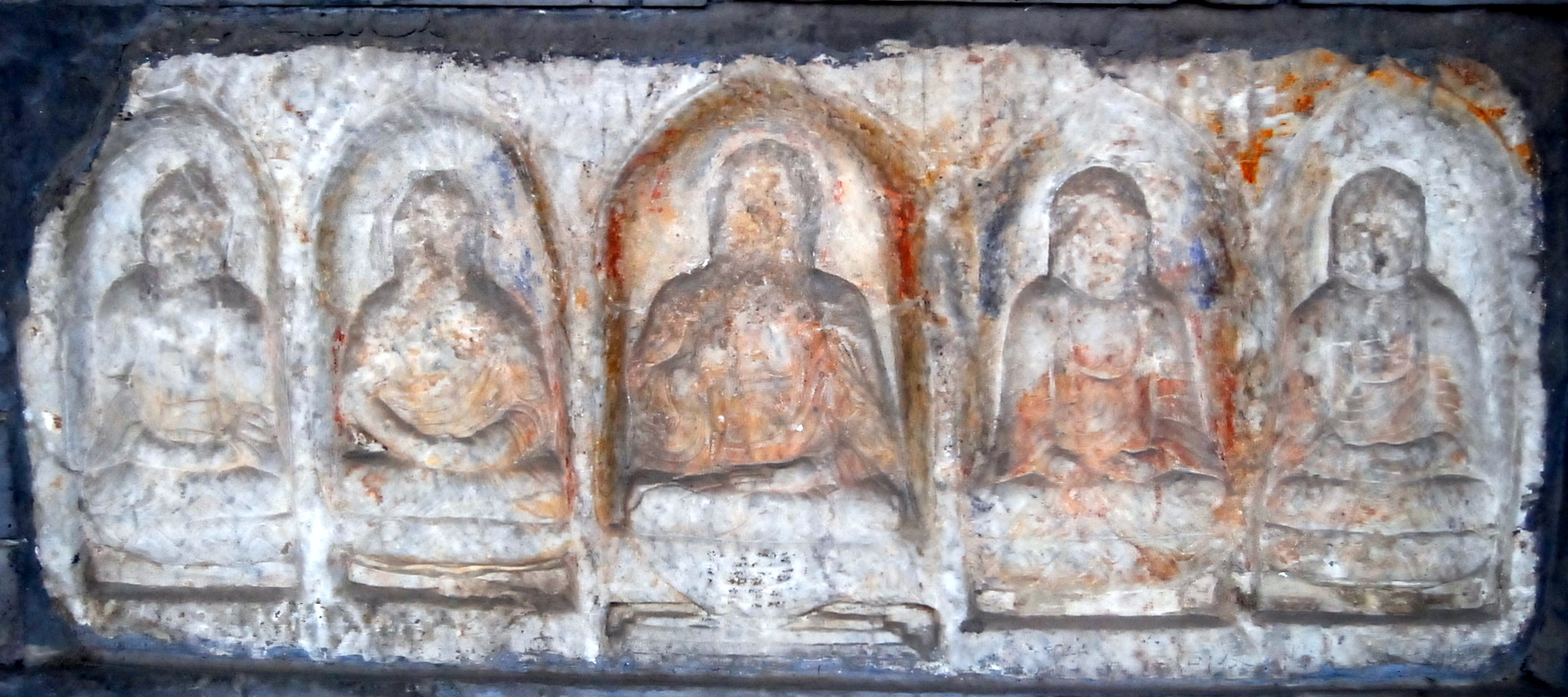 Artist李守荣Description 李守荣造像，唐朝 Current locationBeijing Rock Carving Art Museum, ChinaSource/Photographerself photo 李守荣造像，唐朝